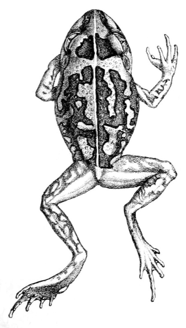 Chiroleptes brevipalmatus = Litoria brevipes